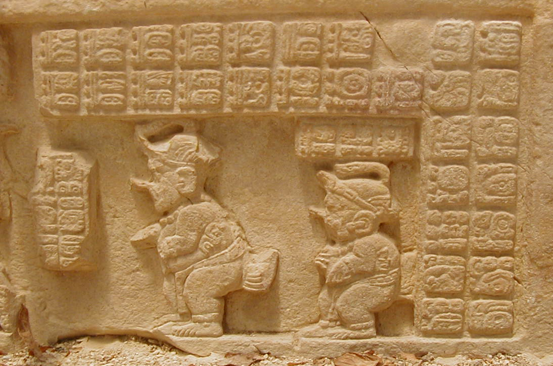 Maya site of Yaxchilan, Chiapas, Mexico. Dwarfs from the Underworld: detail of a scupture depicting King Bird-Jaguar IV during an ballgame. Seen as one ascends to the Acropolis. "Completely unique figures way up high at the Yaxchilan ruins. I didn't see anything else like these little elves at these ruins or any other."